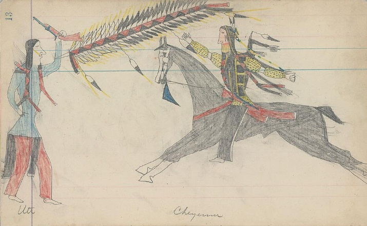 Anonymous ledger drawing of a battle between a Ute warrior and mounted Cheyenne warrior wielding eagle feathered lance. ca. 1880's